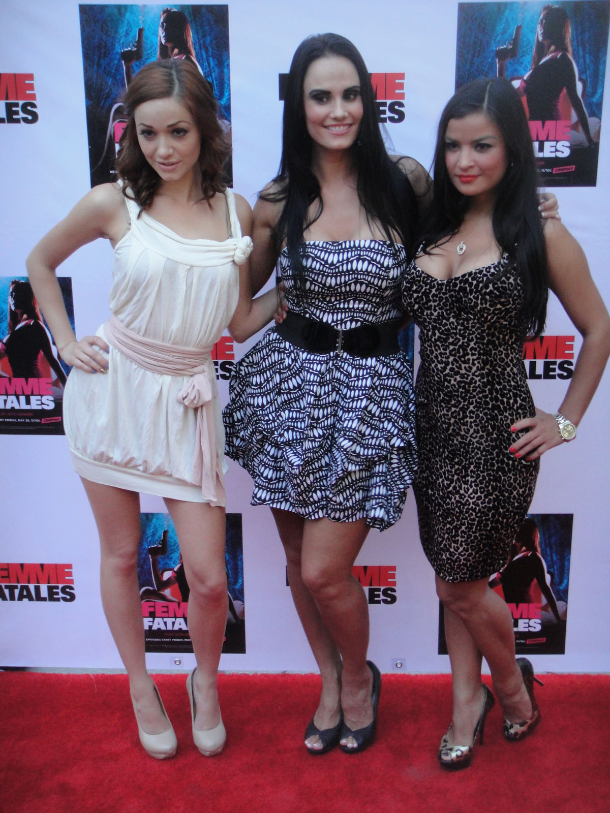 Femme Fatales Red Carpet - Sierra Love, Kristen DeLuca, Crystle Lightning